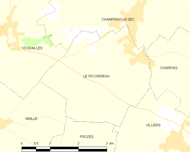 Map of French municipality Le Rochereau